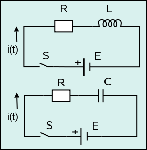 Circuitos serie RL y RC en CC (Serial RL and RC circuits in DC)